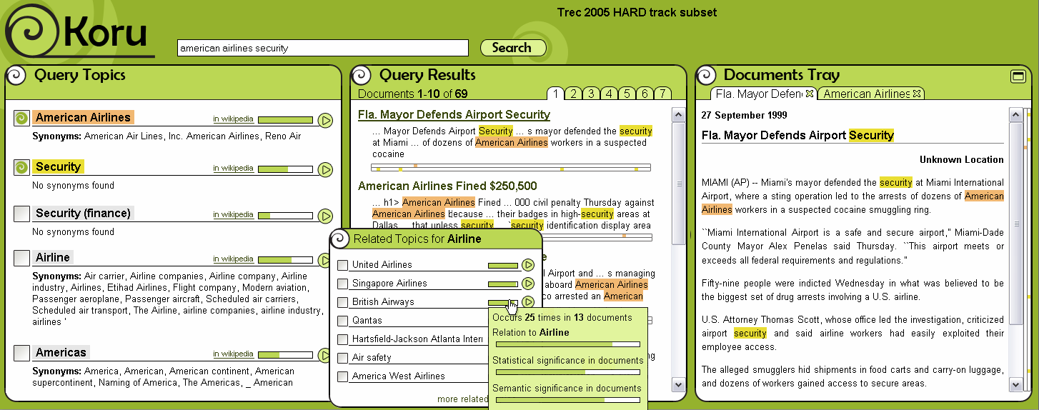 Screenshot of the Koru search engine.